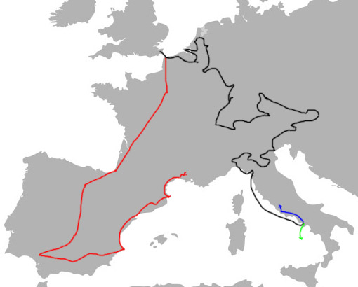 The journeys of Francis Willughby, John Ray, Nathaniel Bacon and Phillip Skipon through continental Europe 1663-5. Based on (2018) The Wonderful Mr Willughby: The First True Ornithologist, London: Bloomsbury, pp. 84,104,123,145 ISBN: 978-1-4088-7848-4. Base map is File:Blank map europe no borders.svg